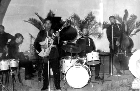 "I Samurai" Italian beat band